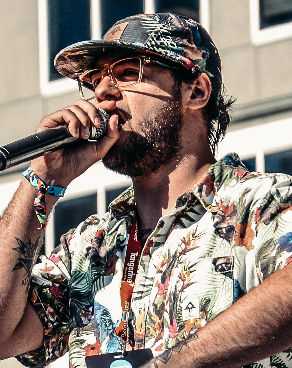 Ghettosocks at the Unity Festival 2016